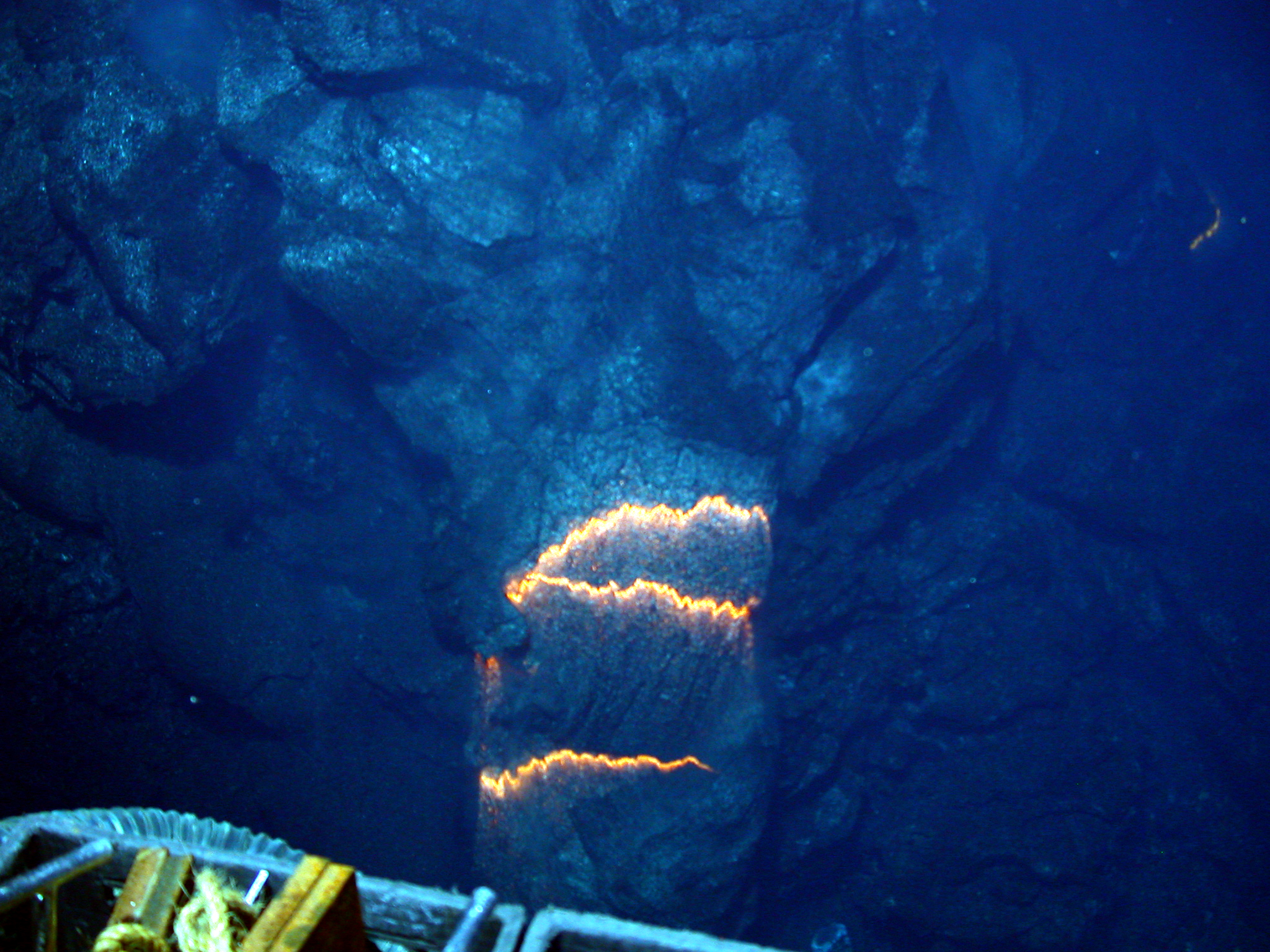 Bands of glowing magma, about 2,200 degrees Fahrenheit, are exposed as a pillow lava tube extrudes down slope. Image is about three feet across in an eruptive area about 100 yards that runs along the summit.